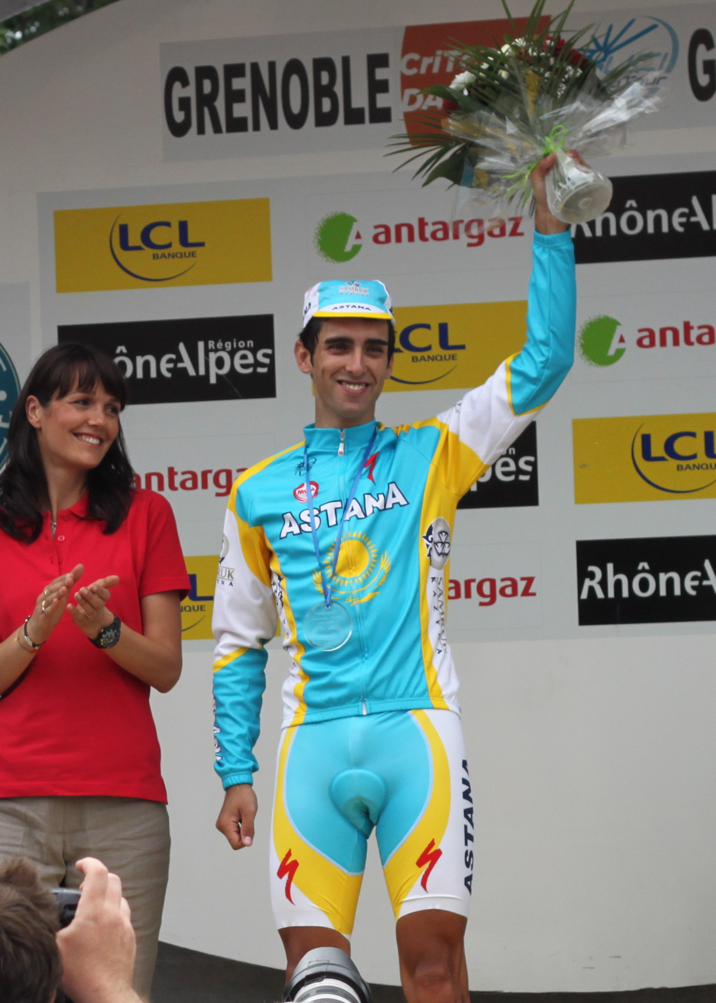 Daniel Navarro, winner of the 5th stage of the 2010 Criterium du Dauphiné